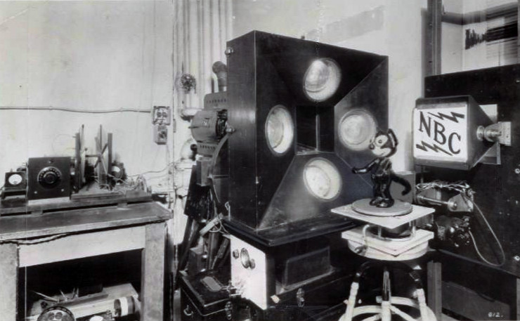 Publicity photo National Broadcasting Company (NBC) issued for their 30th anniversary in 1956. The photo depicts their work in television beginning in 1928. The Felix the Cat doll shown in the photo was used by the company for over a decade beginning with mechanical television in 1928 and continued to be used to help develop electronic television.